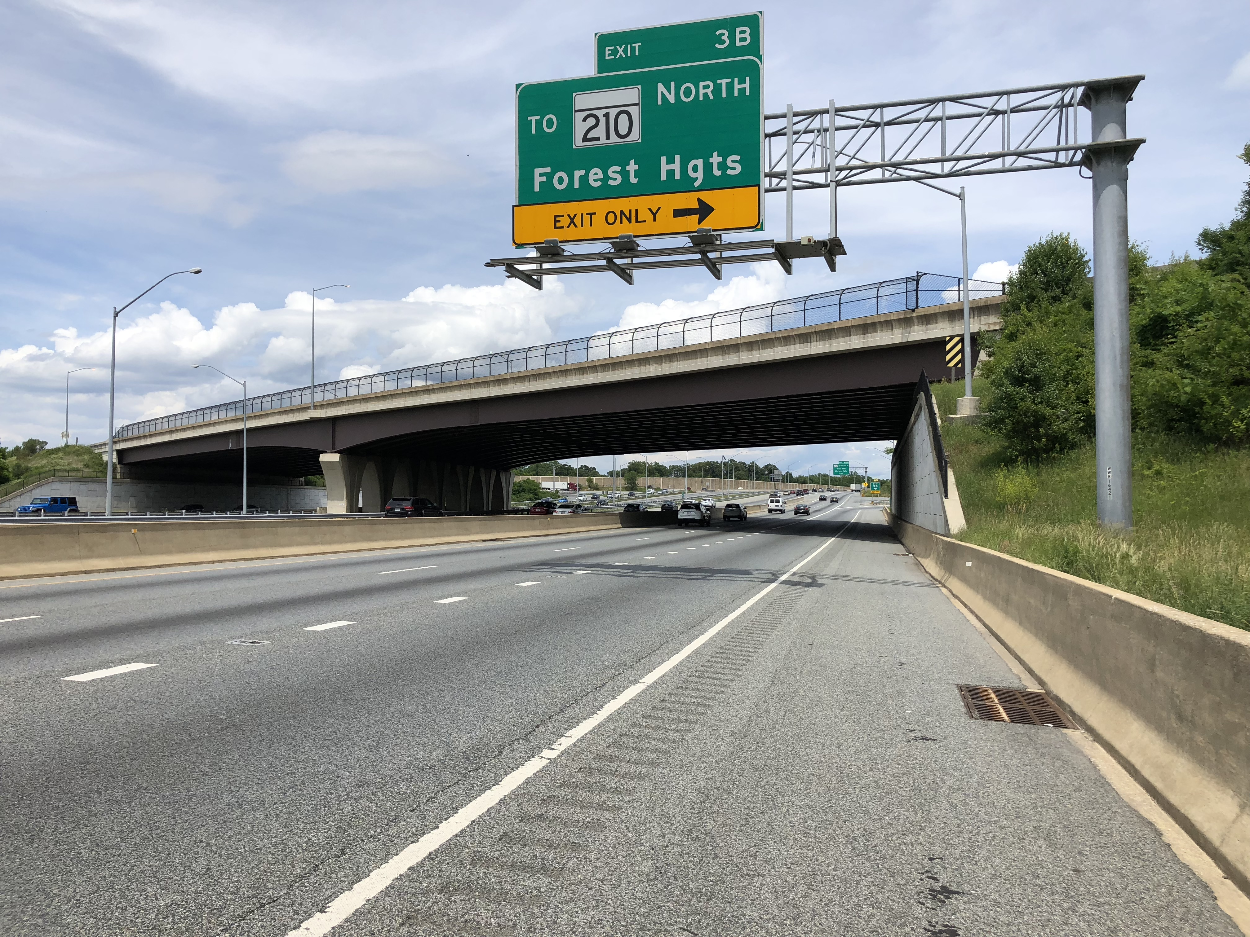 View north along the outer loop of the Capital Beltway (Interstate 95 and Interstate 495) at Exit 3B (To Maryland State Route 210 North, Forest Heights) in Forest Heights, Prince Georges County, Maryland